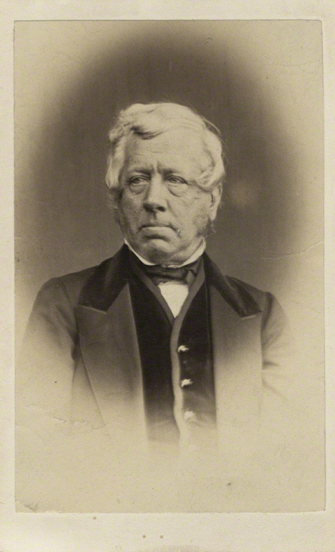 George Howard, 7th Earl of Carlisle (1802-1864) George William Frederick Howard, 7th Earl of Carlisle by Thomas Cranfield, published by Mason & Co (Robert Hindry Mason) albumen carte-de-visite, early-mid 1860s 3 5/8 in. x 2 1/4 in. (91 mm x 57 mm) image size Given by Algernon Graves, 1916 NPG Ax5084